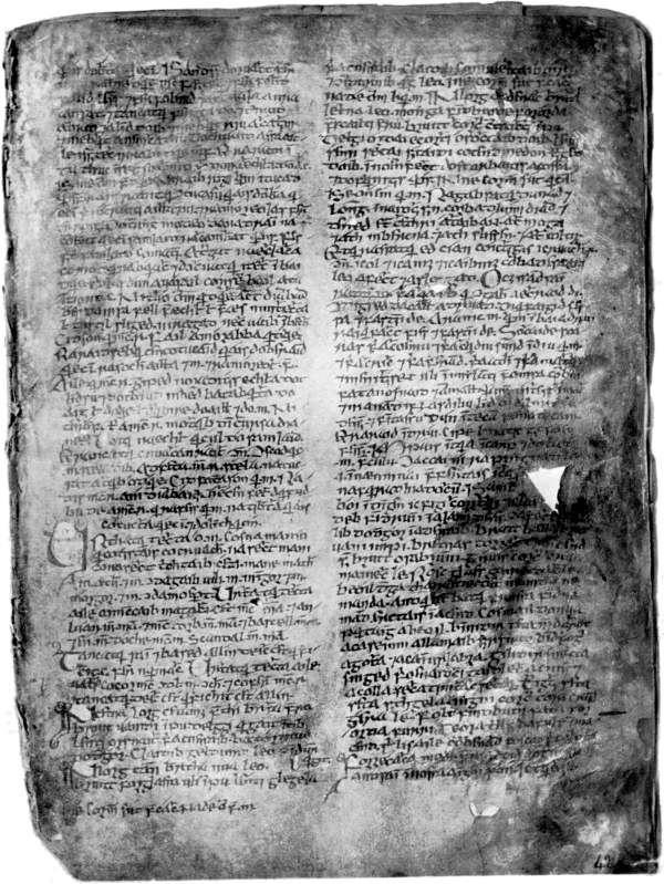 Facsimile, page 55 —from the Book of Leinster, used in the Gutenberg Project e-book The Ancient Irish Epic Tale Táin Bó Cúalnge translated by Joseph Dunn